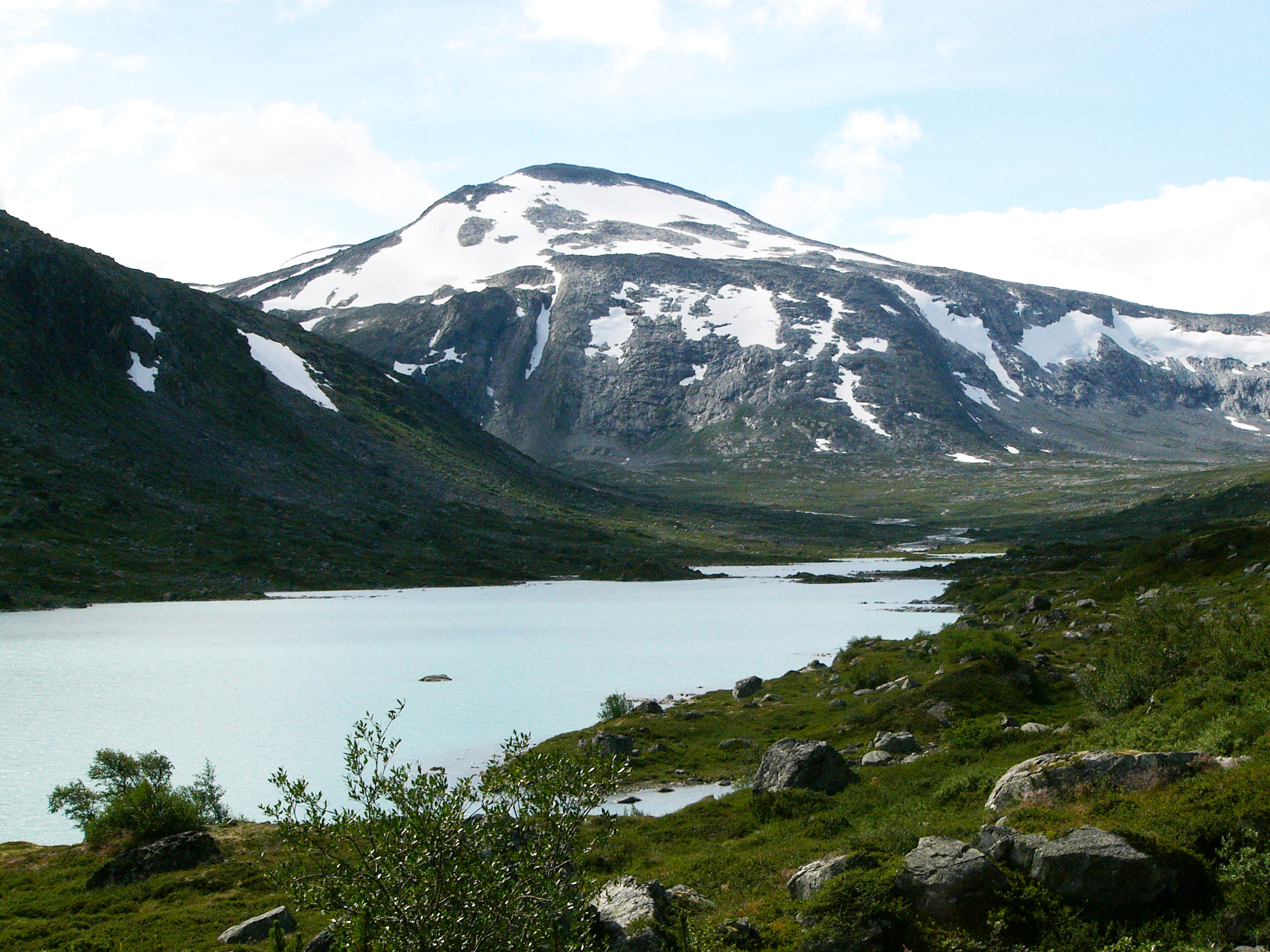 Gamle Strynefjellsvegen